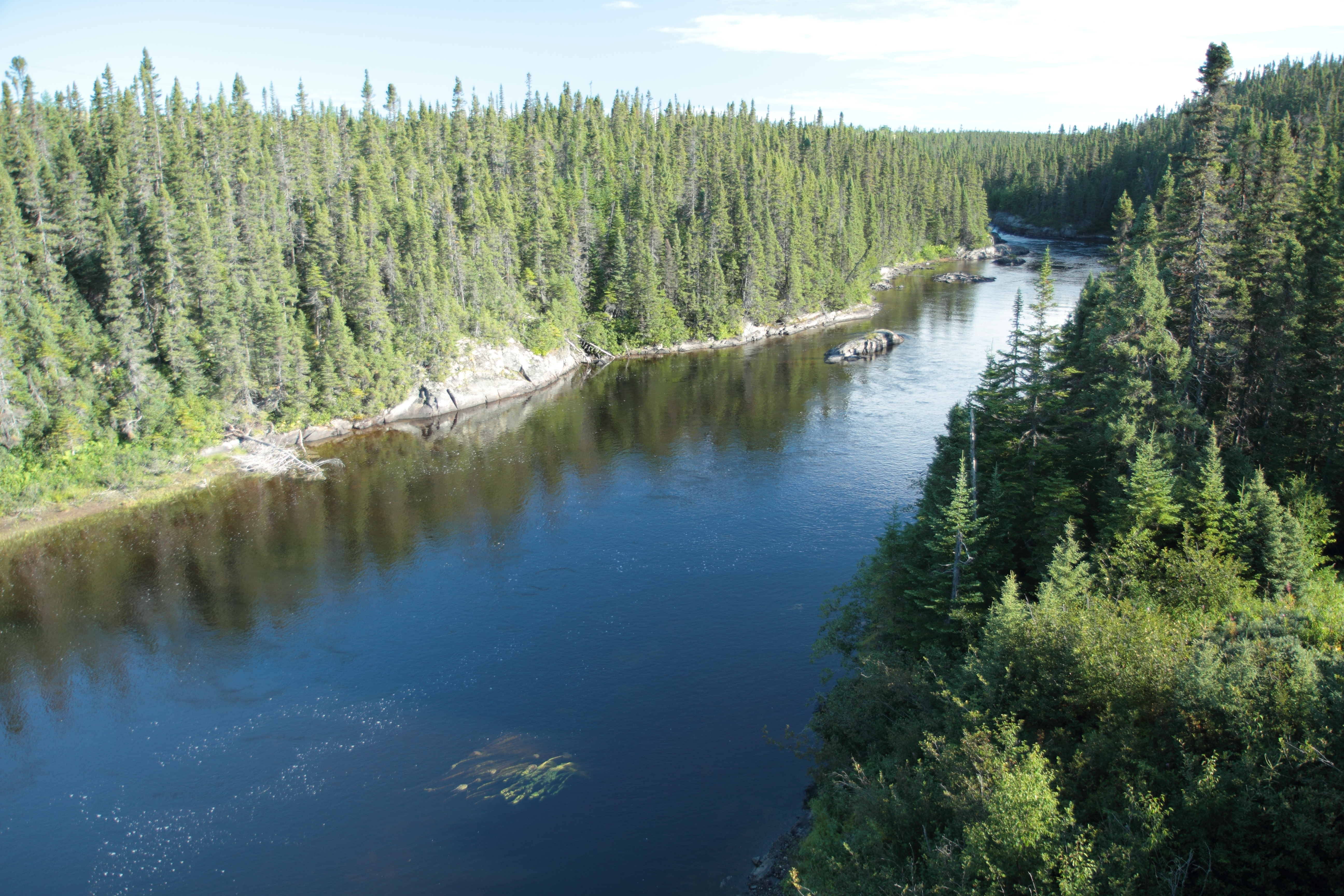 Quetachou river, Baie-Johan-Beetz, Quebec, Canada